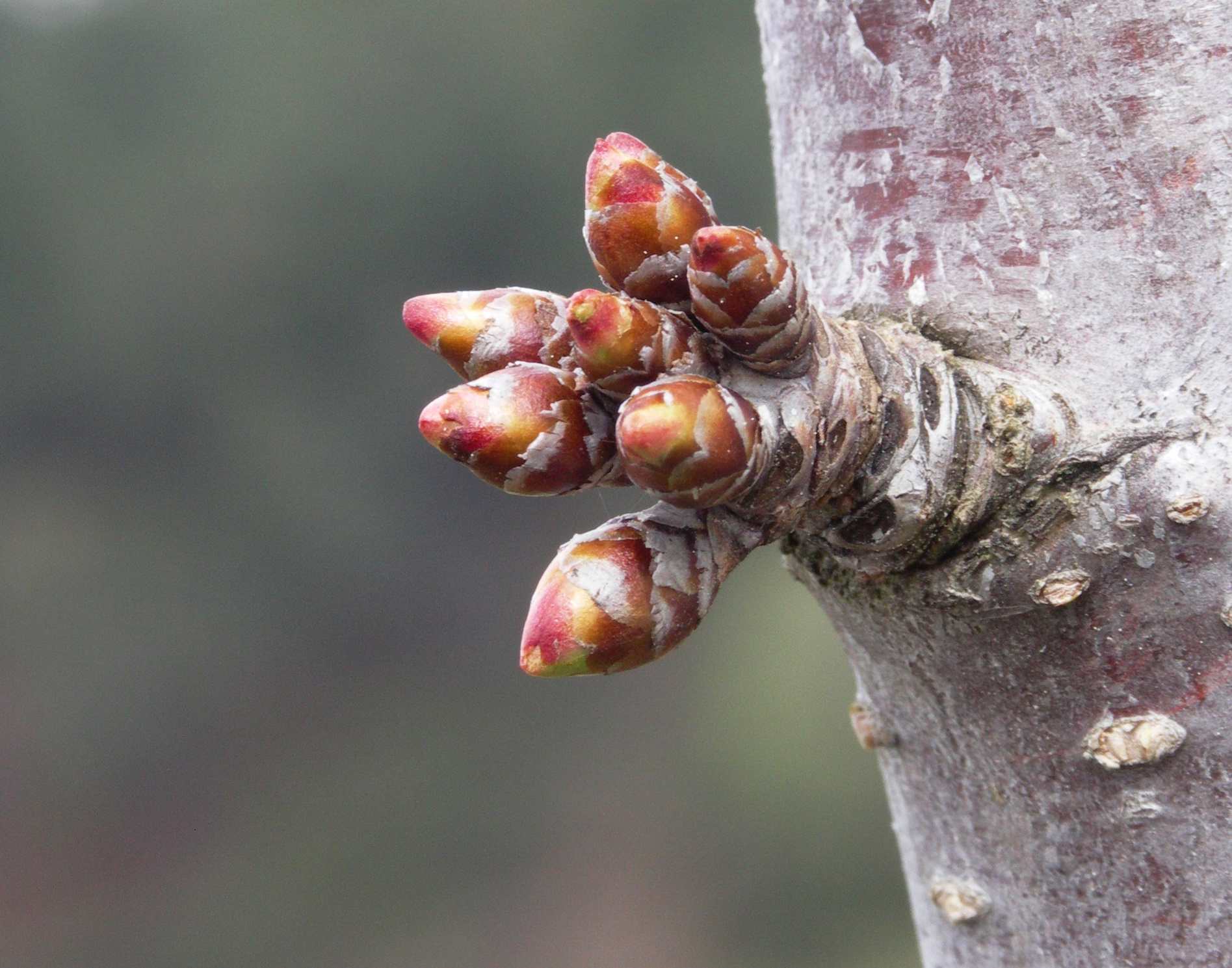 Sprouts of unknown prunus spec. Take at Seia, Serra da Estrela, Portugal